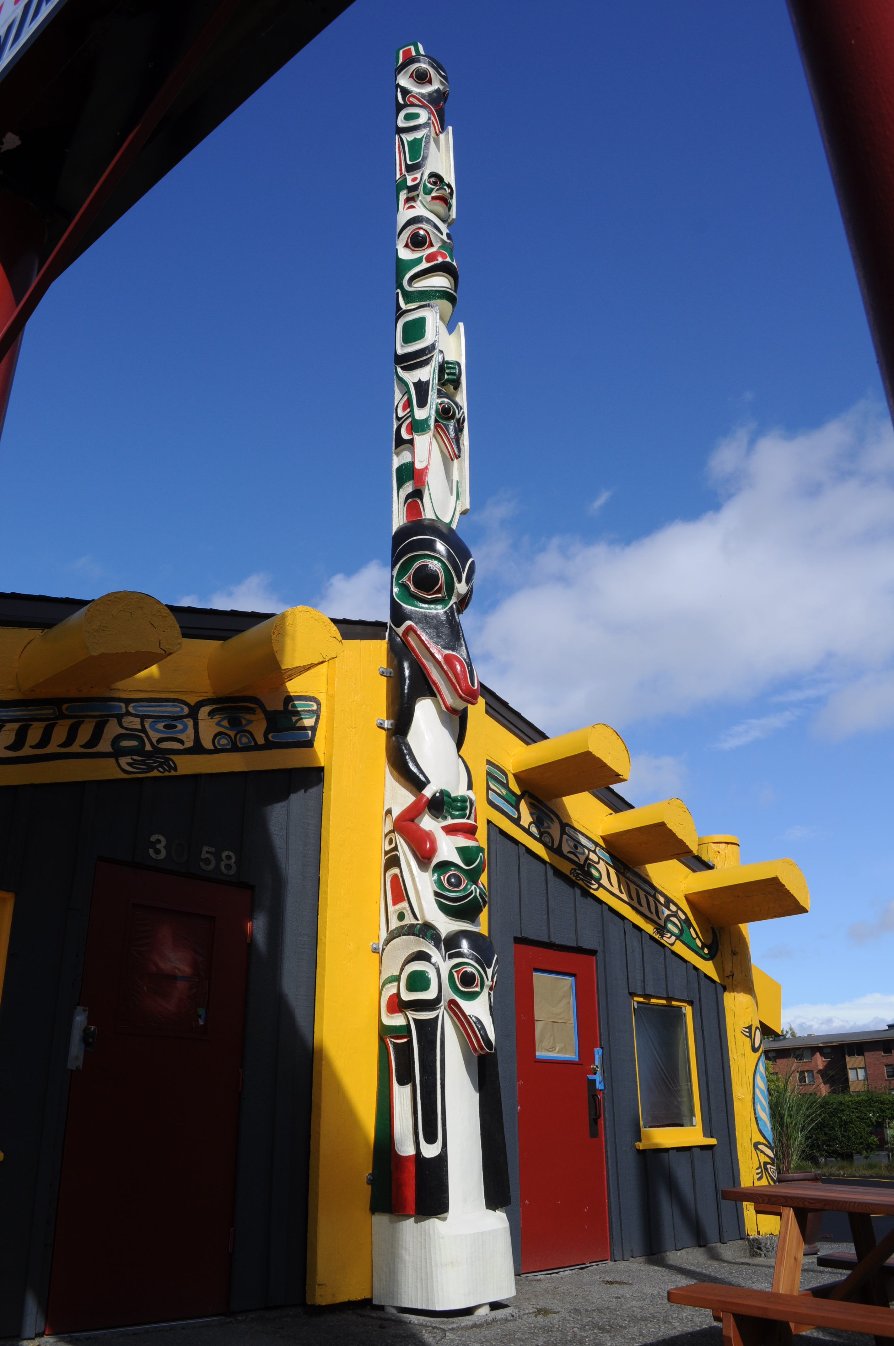 Totem House, Ballard, Seattle, Washington (across the street from the Locks). Built in 1939 as a souvenir stand; a fish and chips place from 1945 to 2010. Red Mill will now be doing both burgers and fish & chips there; this image shows the recently restored totem pole.